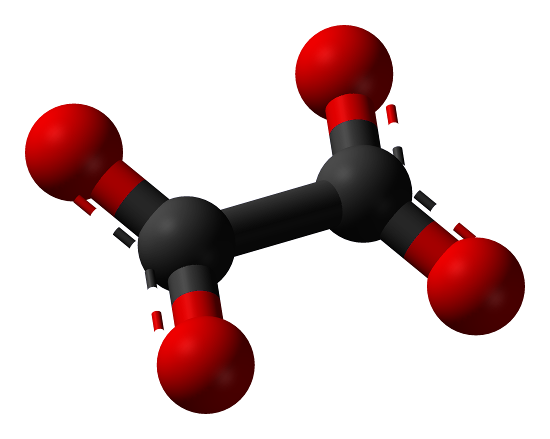 Ball and stick model of the oxalate ion.